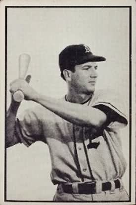 1953 Bowman Black and White baseball card of Hal Bevan of the Philadelphia Athletics #43. PD-not-renewed.